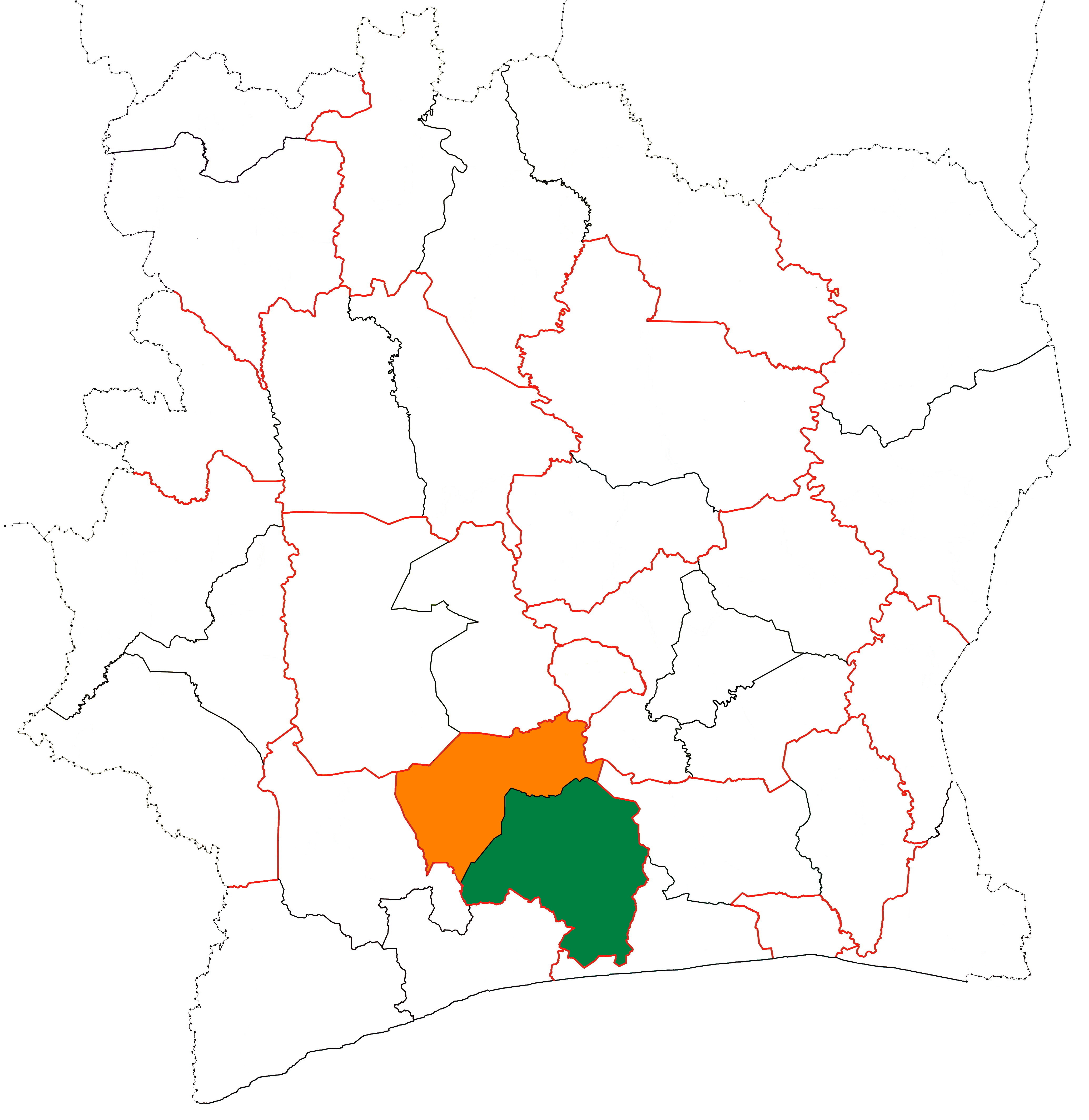 The location of Lôh-Djiboua region (green) in Côte d'Ivoire. The other shaded areas represent the other parts of Gôh-Djiboua District.